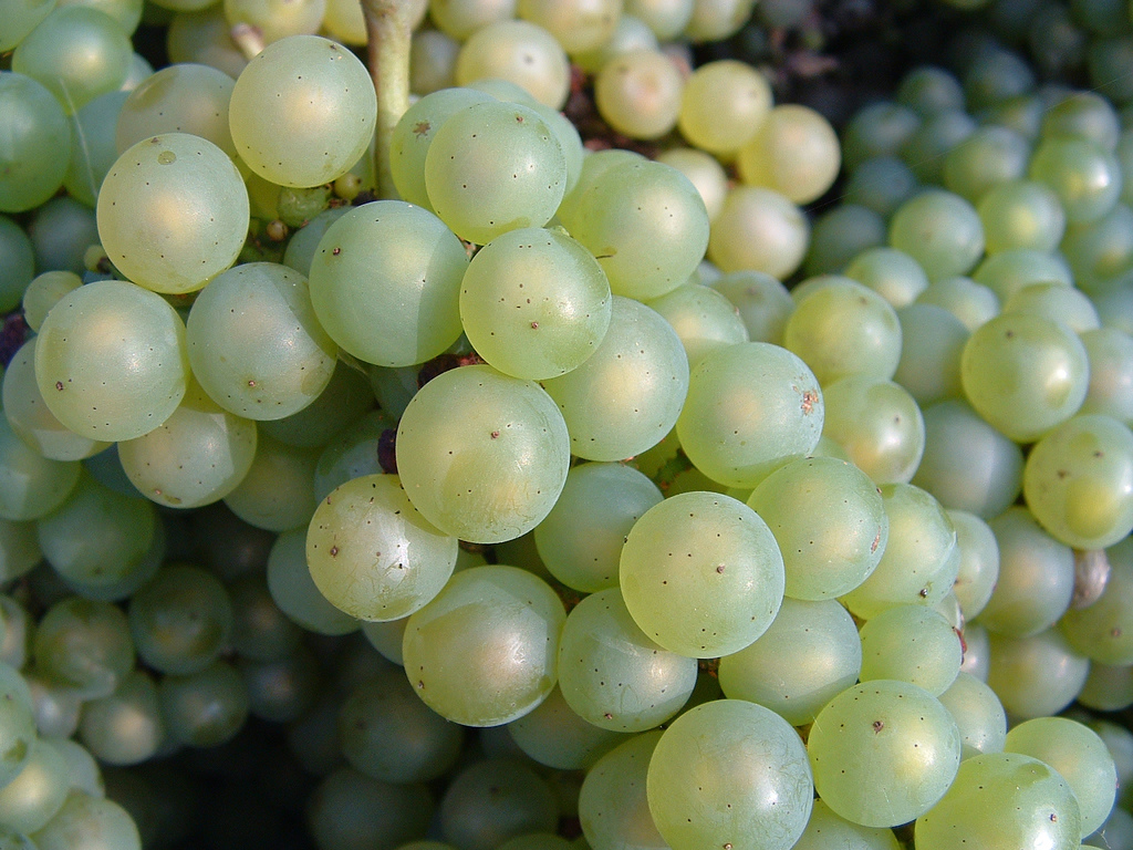 Close up image of Chardonnay grapes